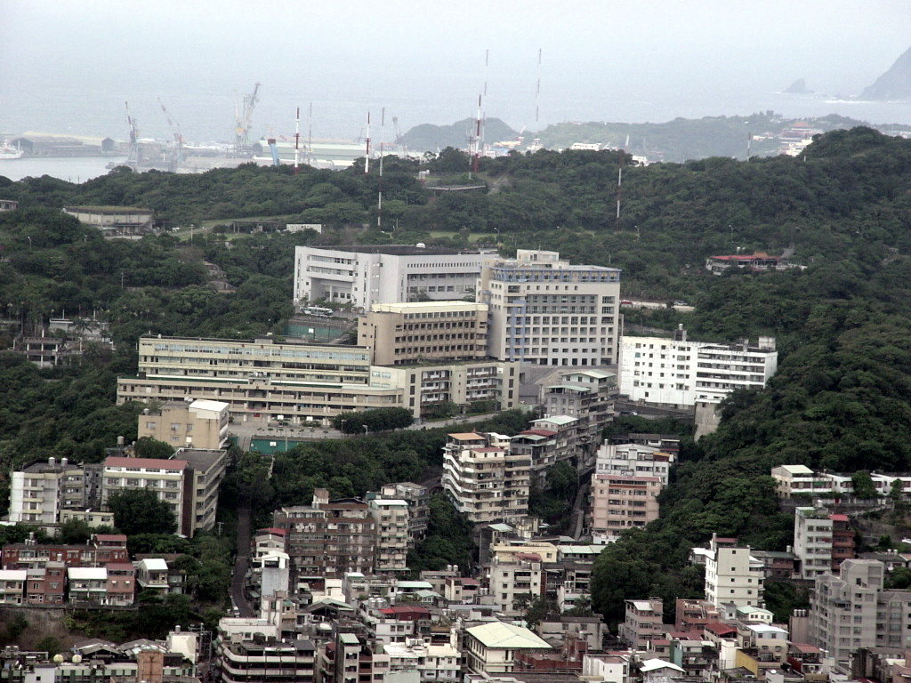 The center of the picture shows Chungyu Institue of Technology, it located in Keelung City, Taiwan.